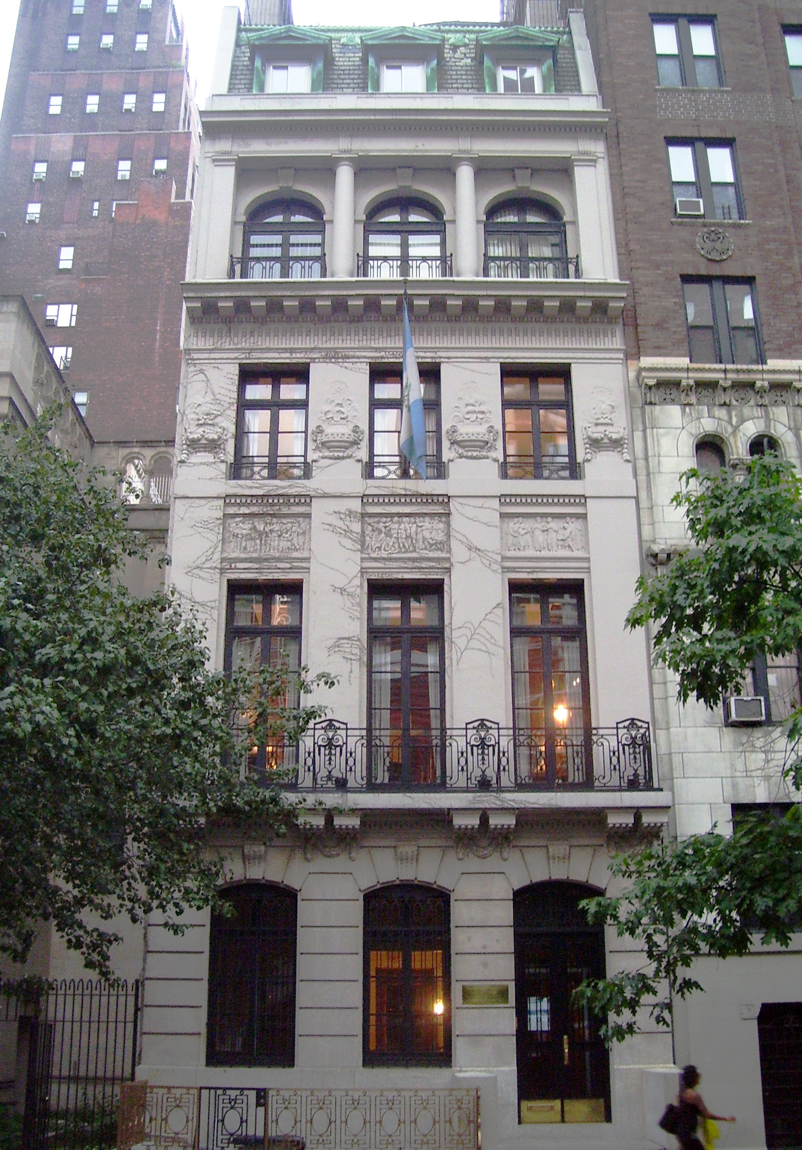 The Adelaide L. Townsend Douglas House, currently the Guatemalan U.N. Mission, at 57 Park Avenue between East 37th and 38th Streets in the Murray Hill neighborhood of Manhattan, New York City was built in 1909-11 and was designed by Horace Trumbauer, a Philadelphia architect, in the Louis XVI style. It was designated a NYC landmark in 1979. (Source: Guide to NYC Landmarks (4th ed.) and AIA Guide to NYC (4th ed.))